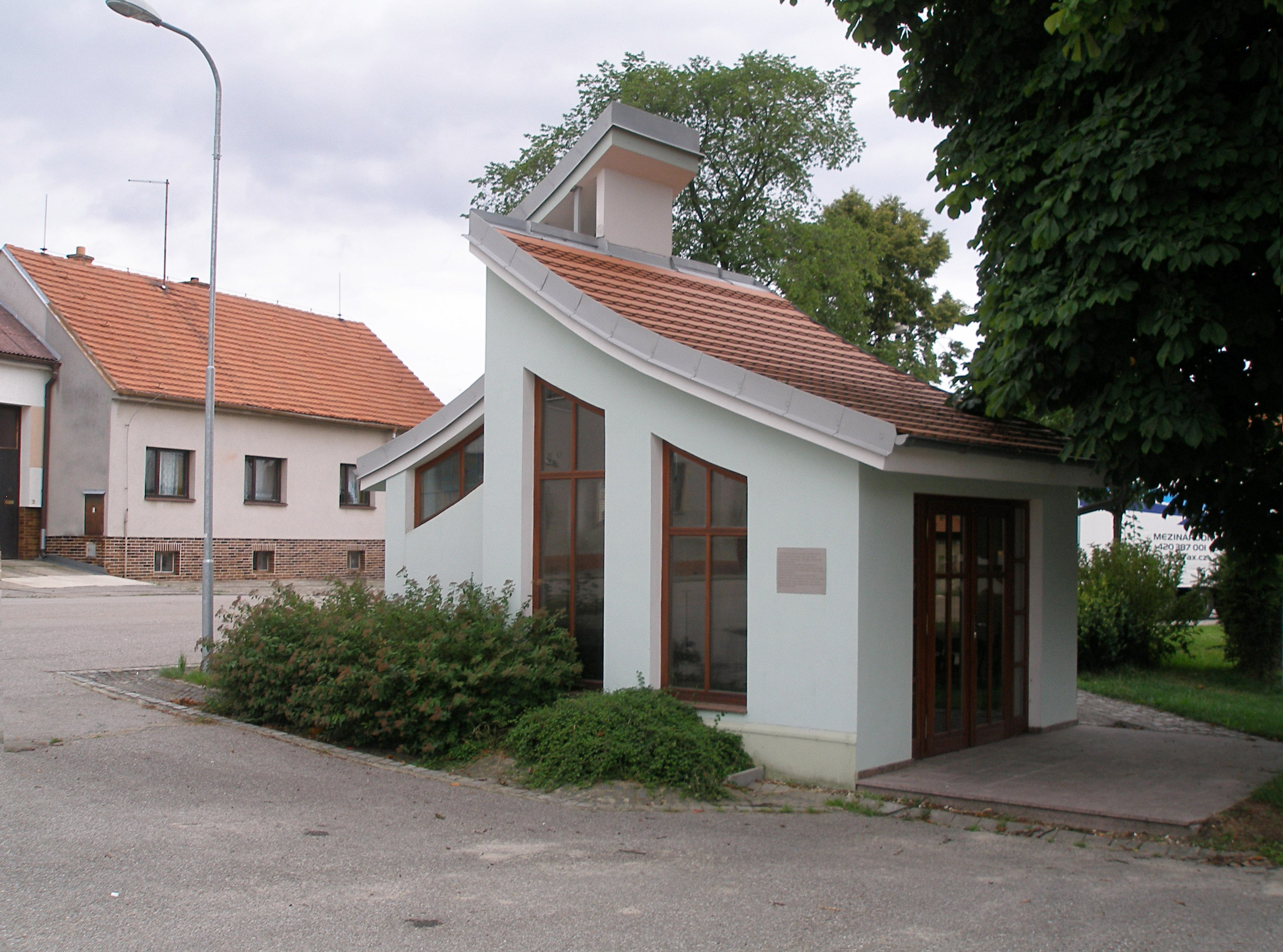 Chapel of St. Agnes of Bohemia built in 2002 on the square in Ločenice